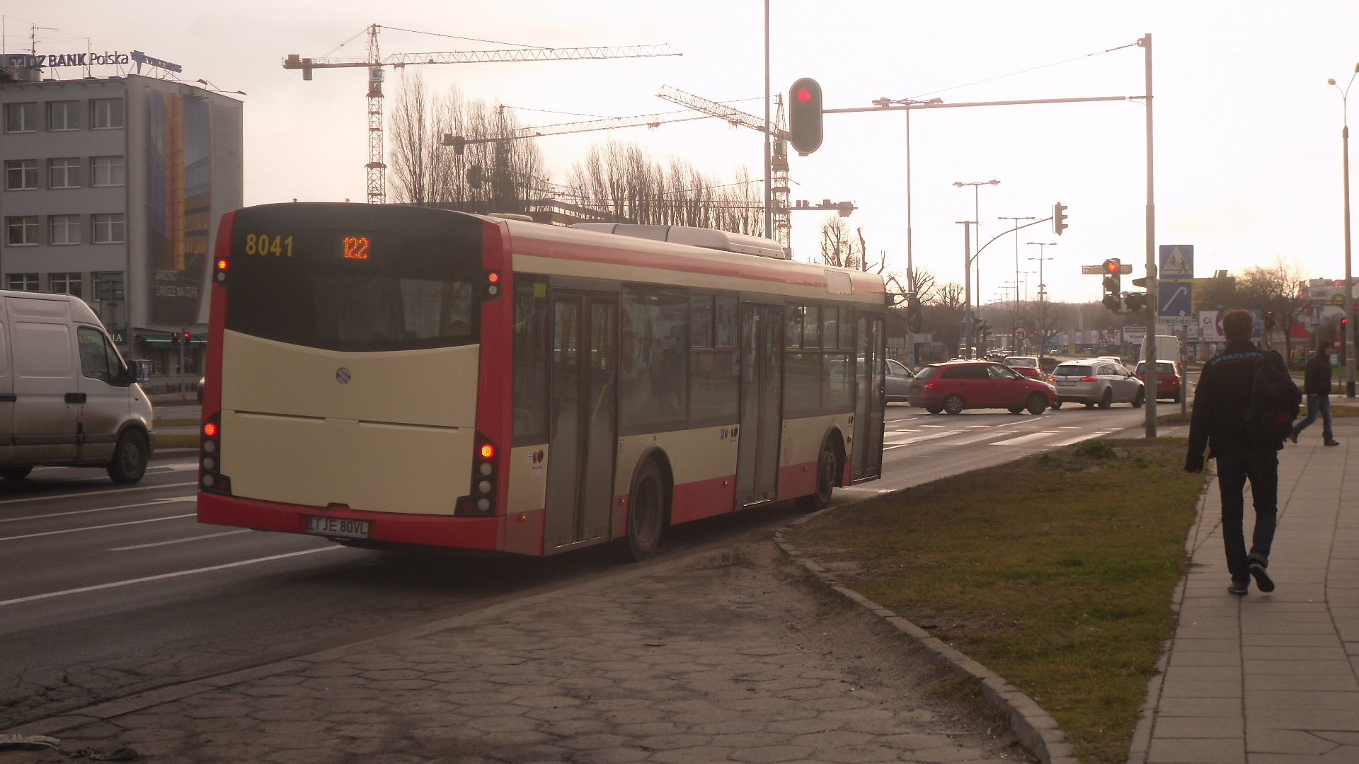 Solbus Solcity 12 bus (#8041, reg. TJE 80VL) in Gdańsk, Poland. Built 2008, Warbus from Warsaw - Division Gdańsk operator.